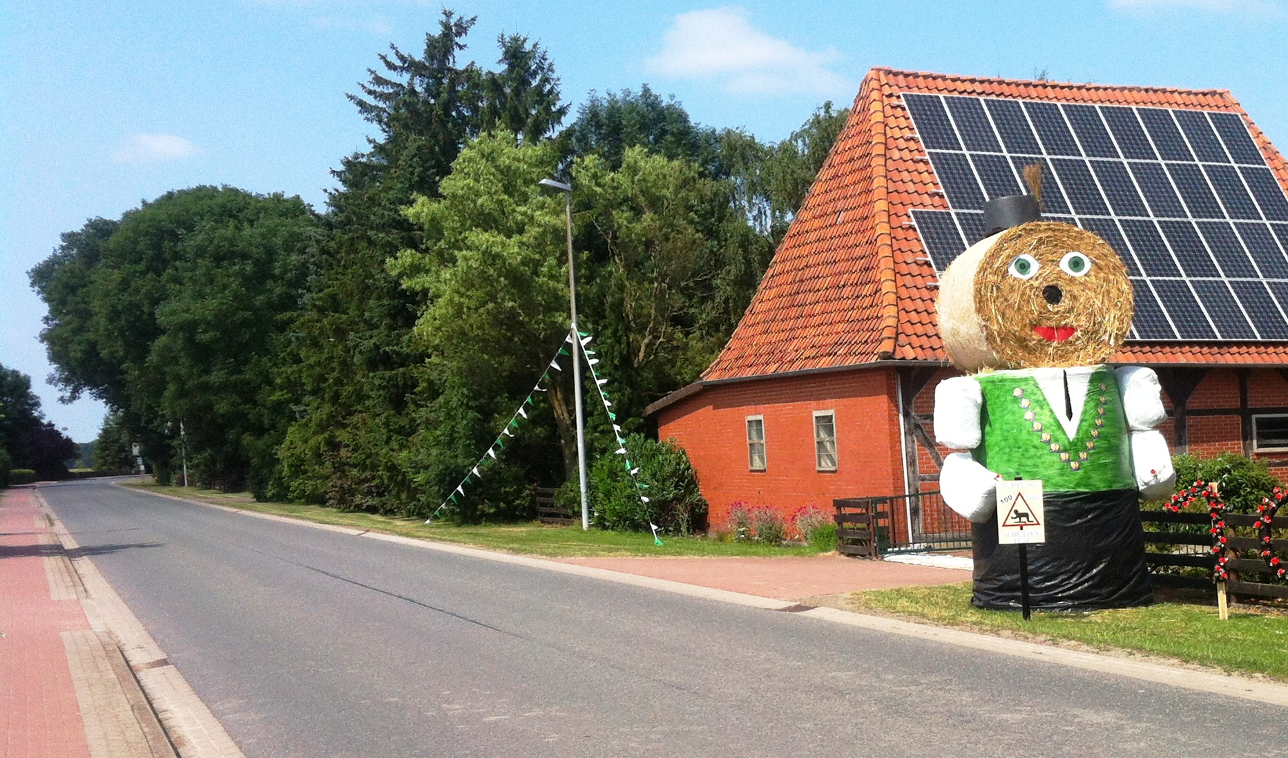 Some of the street decorations which can be found during Schutzenfest.